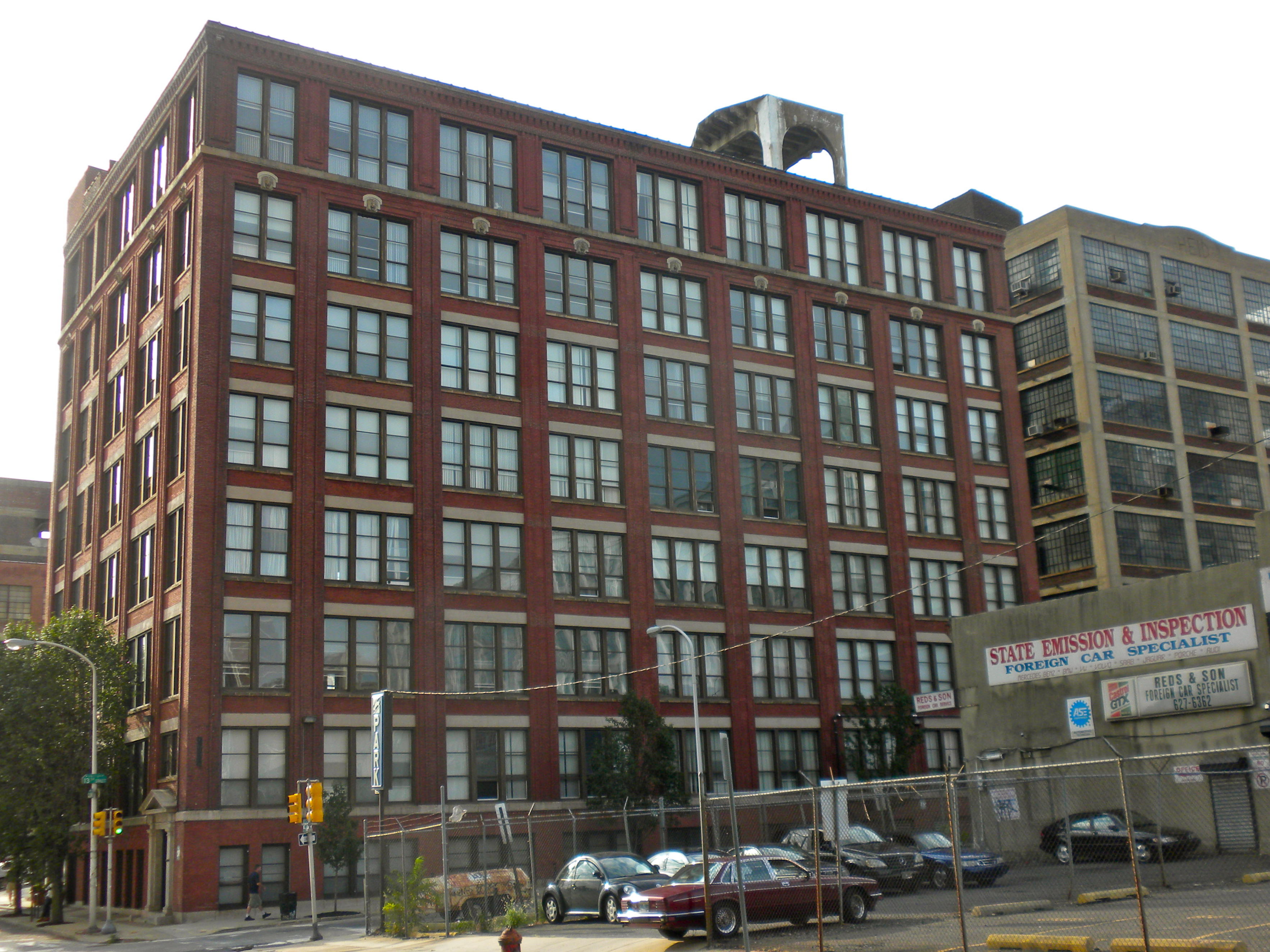 Goodman Brothers and Hinlein Company on the NRHP since March 7, 1985. In a factory district at 1238 Callowhill St., Philadelphia, in the Callowhill neighborhood